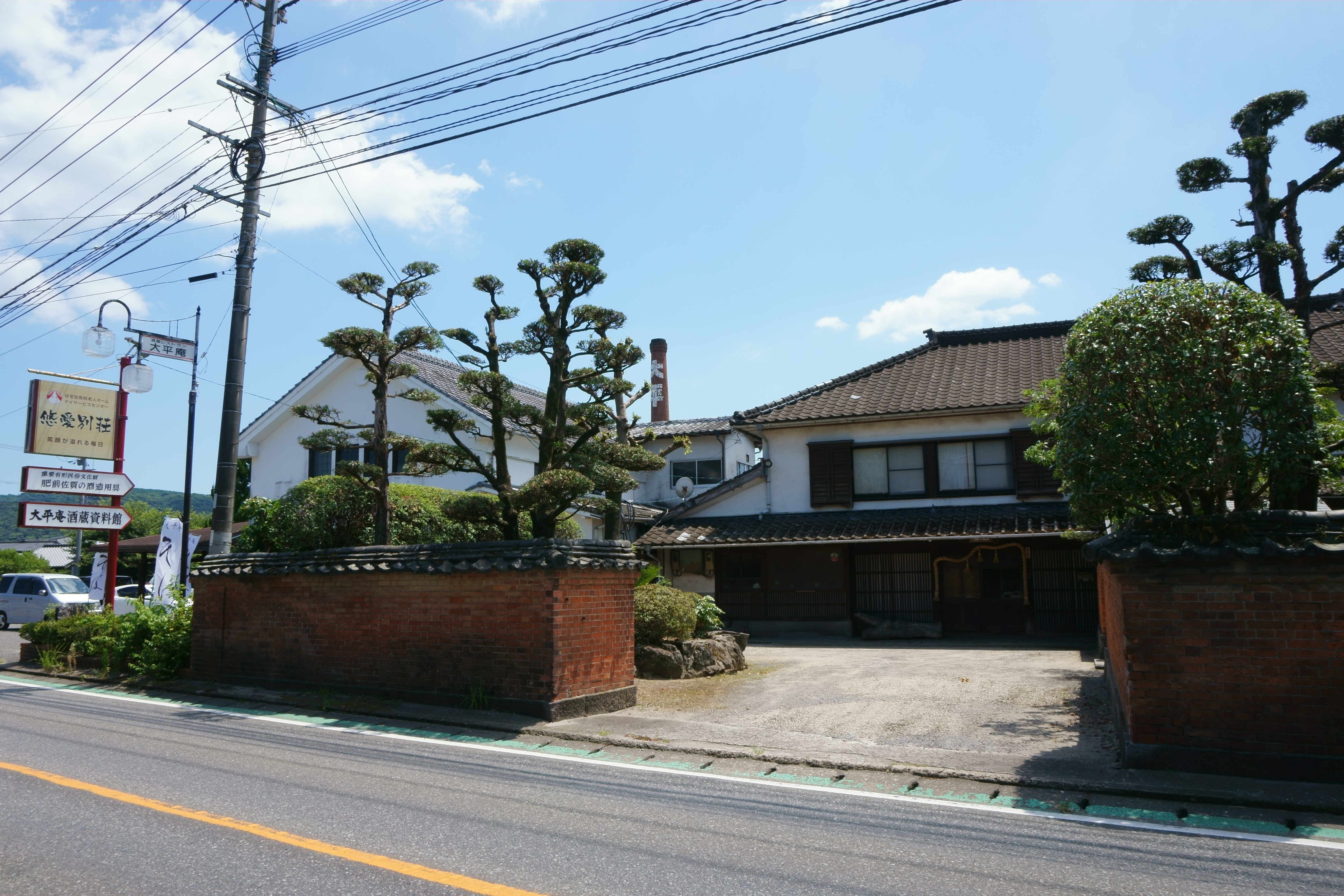 Ōhiraan Sake Brewing Museum(Ōhira'an Shuzō Shirōkan) in Higashitaku, Taku city, Saga prefecture. It displays sake brewing tools used in Meiji to Showa period.